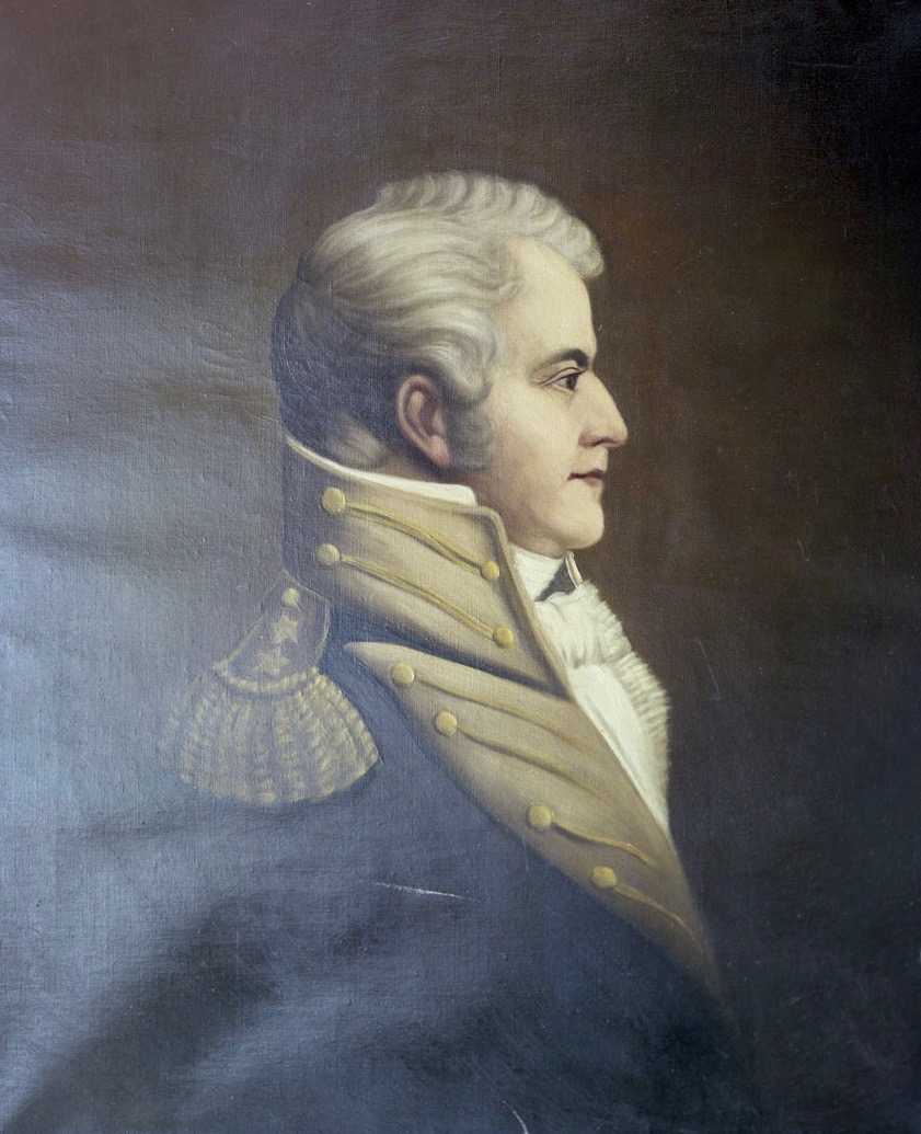 Benjamin Smith, 1810 - 1811 From the General Negative Collection, State Archives of North Carolina, Raleigh, NC.